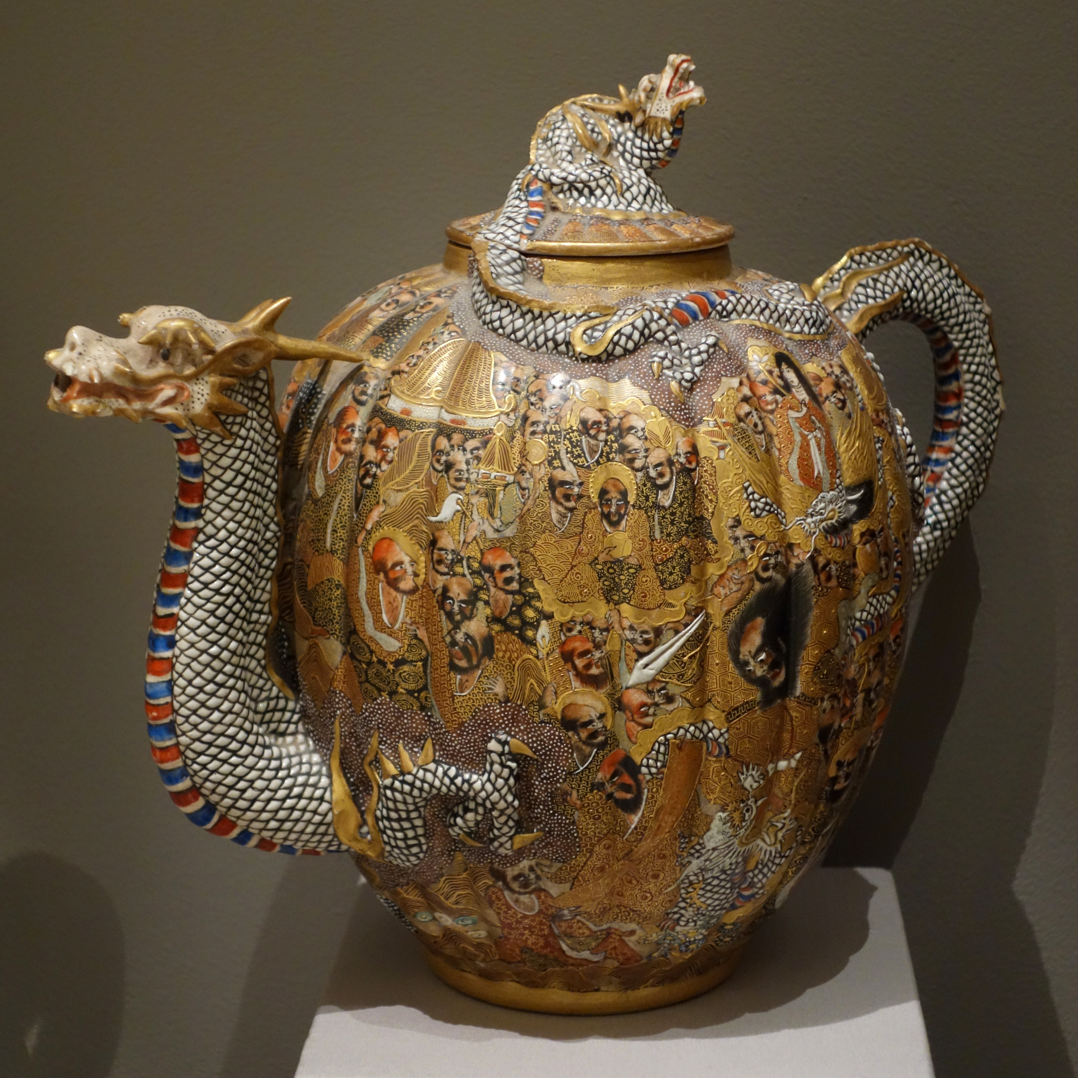 Exhibit in the Chazen Museum of Art, University of Wisconsin-Madison, Madison, Wisconsin, USA. This artwork is old enough so that it is in the public domain.